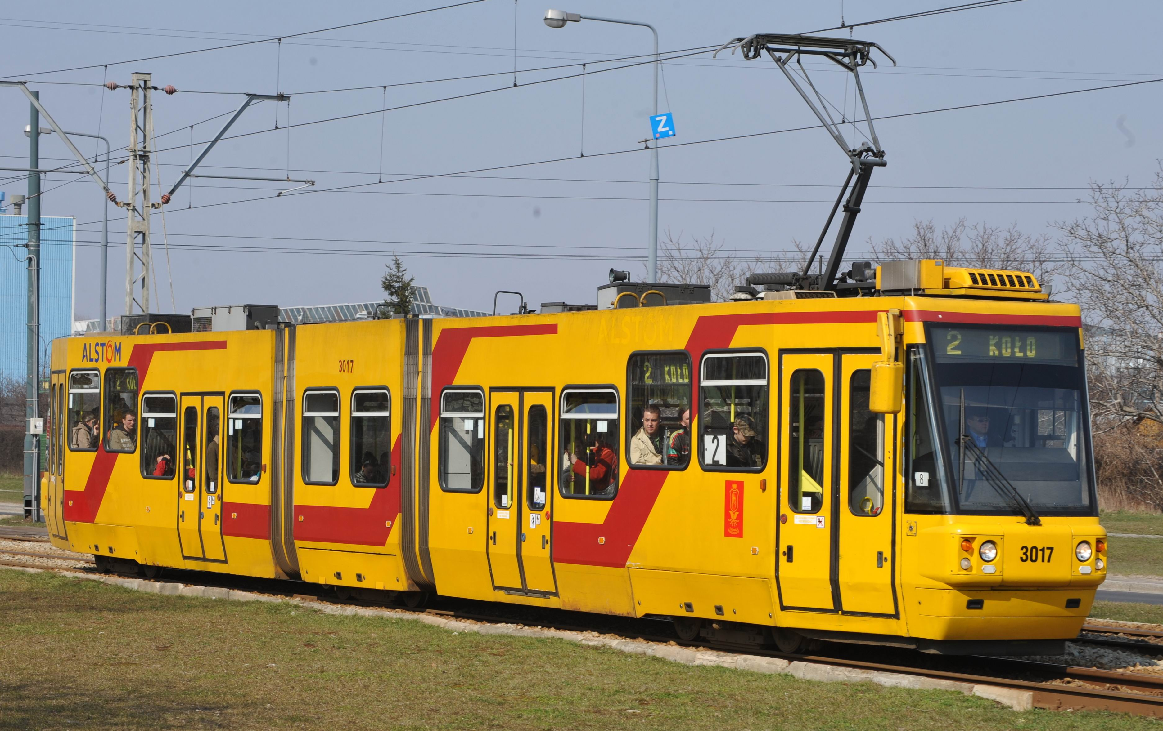 Konstal 116Na/1 tram (#3017) in Warsaw, Poland. Tramwaje Warszawskie operator.